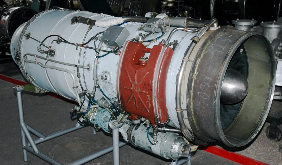 Progress-Ivchenko AI-25 turbofan engine (Museum of Polish Aviation, Cracow)